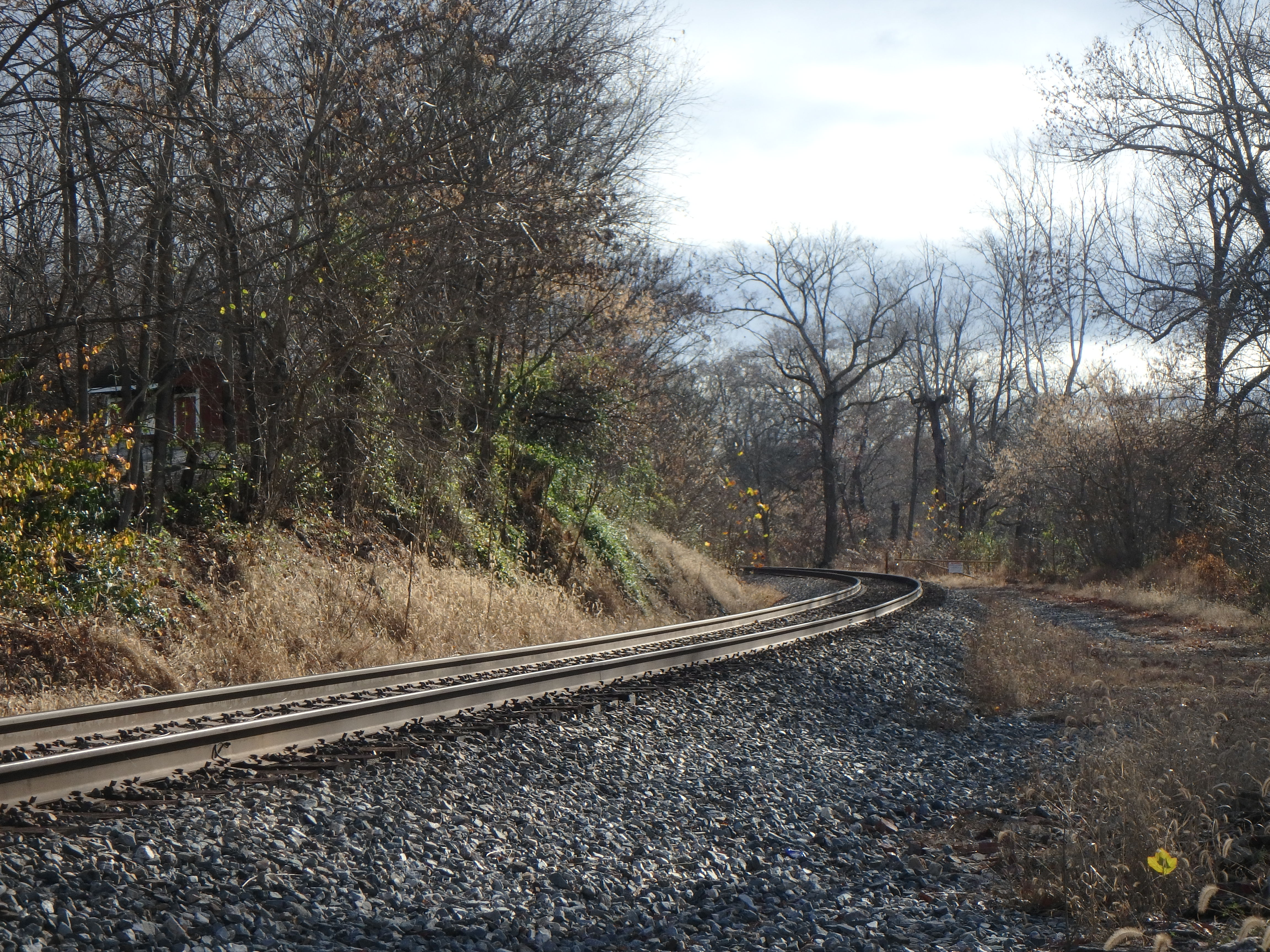 This image depicts some railroad tracks in Ijamsville, MD, running more-or-less parallel to Ijamsville Road and Reichs Ford Road. These tracks are still in use, and likely follow the path of much older B&O tracks constructed in the late 18th century.